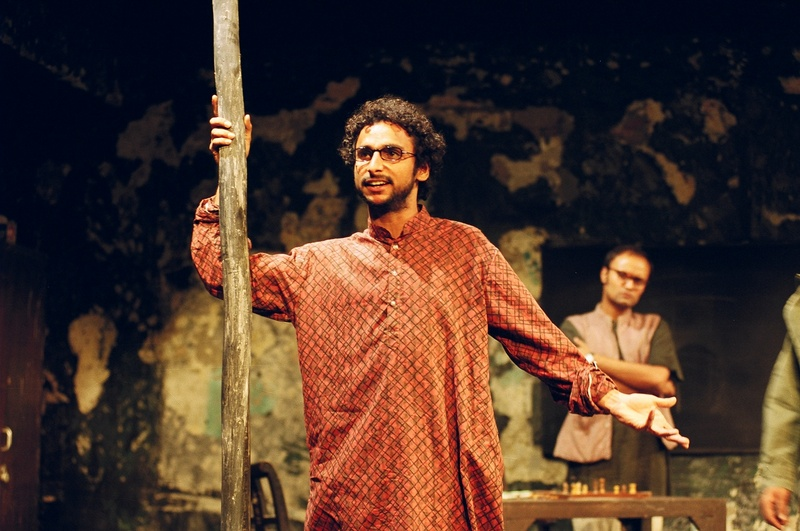 3rd image to be added in Theatre section of my article Inaamulhaq